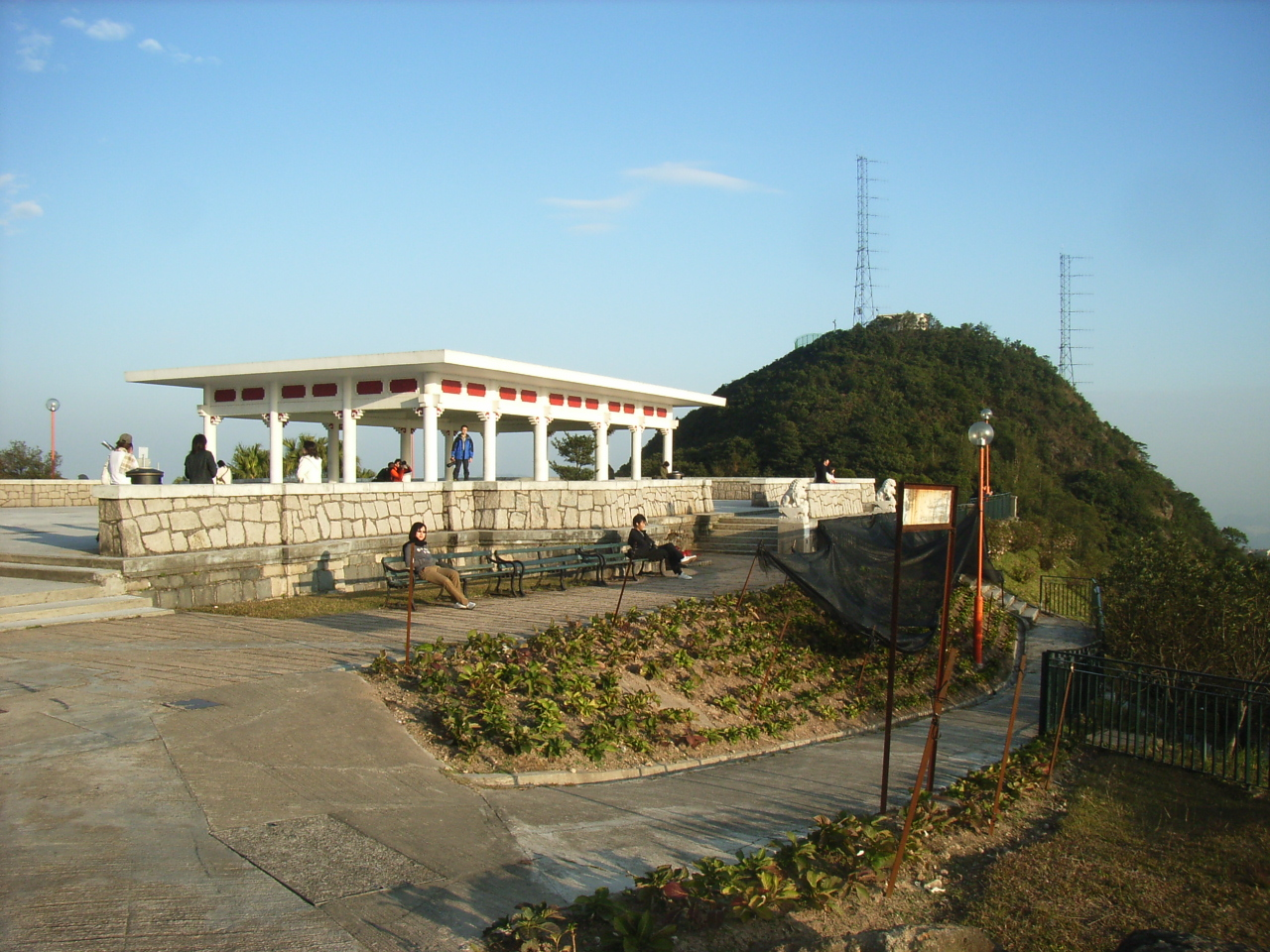 Victoria Peak Garden, Mount Austin Road, Victoria Peak, Hong Kong Photographer and author is ParkerStarS.